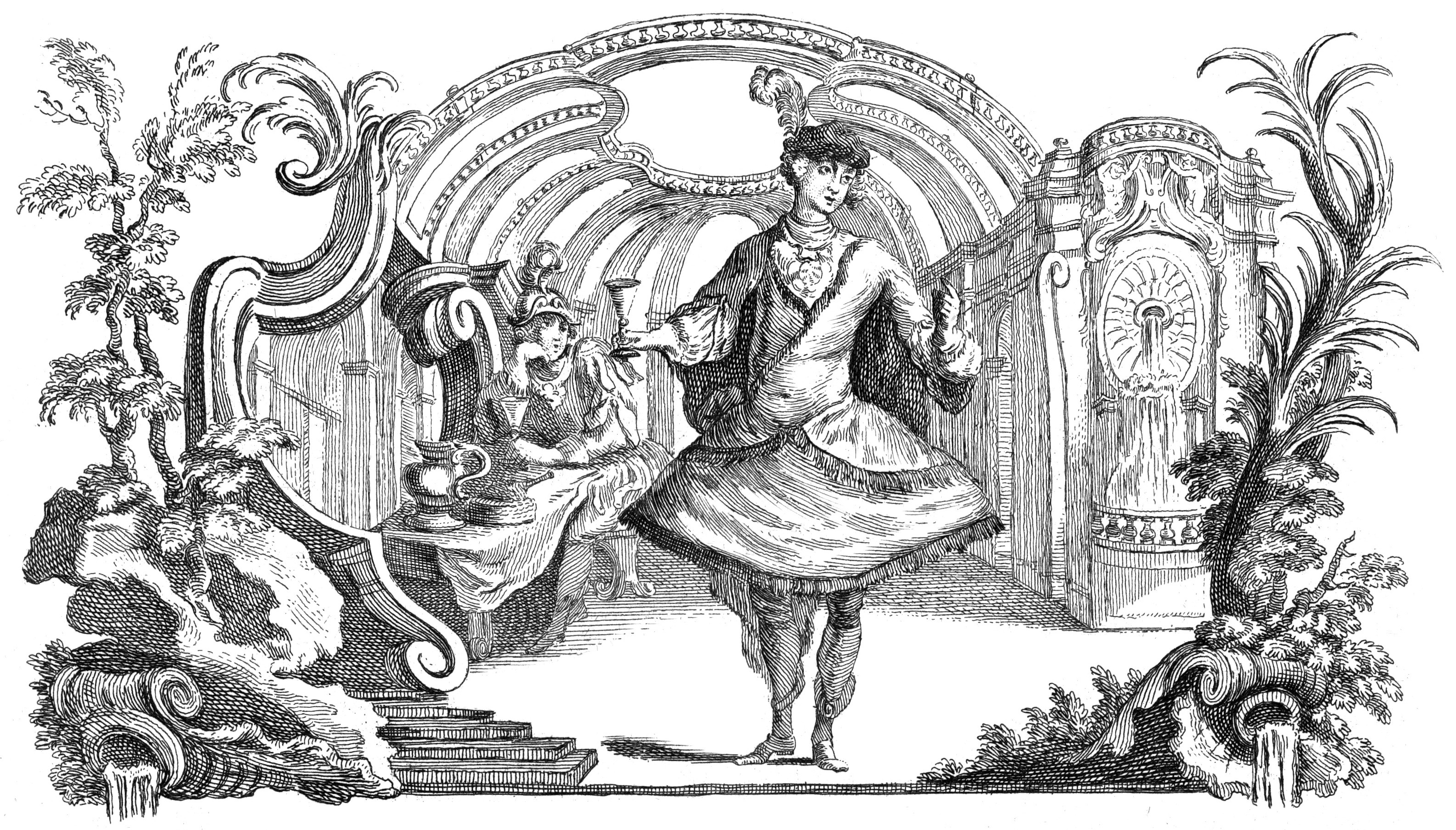 Lampe - The Dragon of Wantley - Moor Circulating the Cheerful Glahs - "Zeno, Plato, Aristotle all were Lovers of the Bottle"